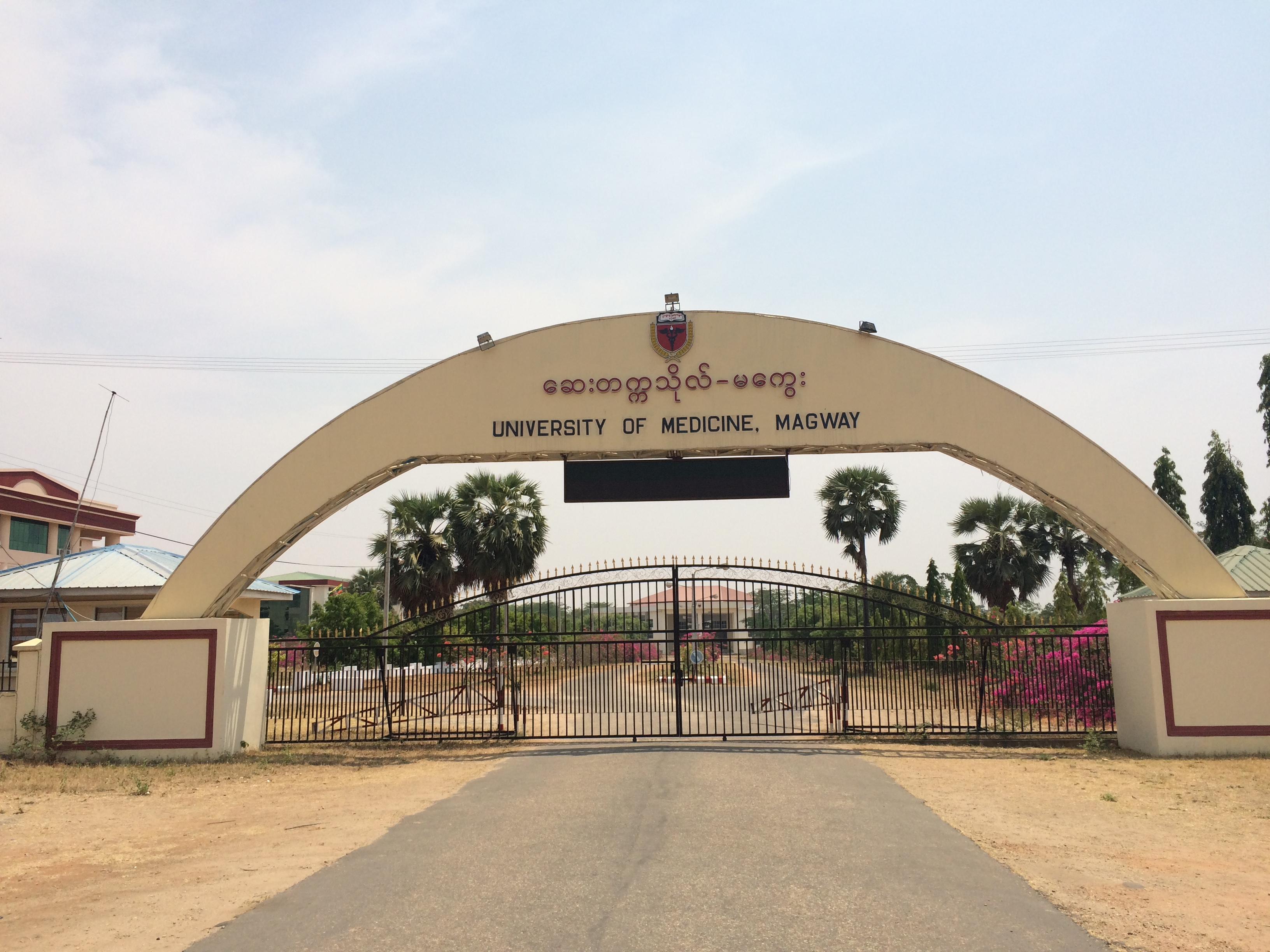 Main entrance of University of Medicine, Magway မြန်မာဘာသာ: ဆေးတက္ကသိုလ် (မကွေး)၏ ပင်မဝင်ပေါက်